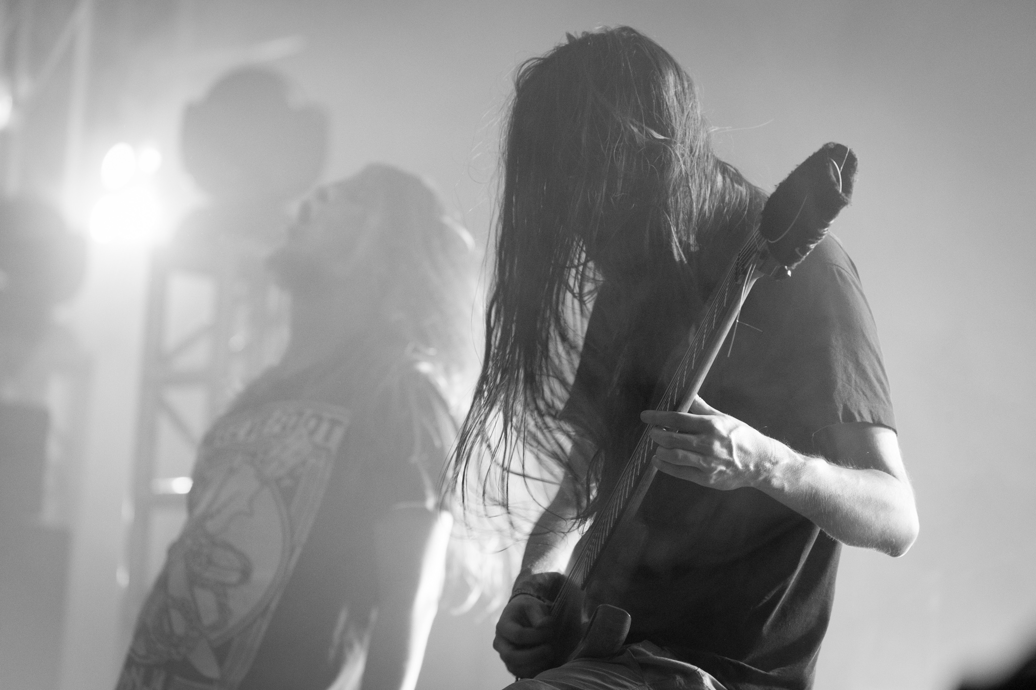 Vildhjarta performing at the Euroblast Festival in Cologne, October 2014